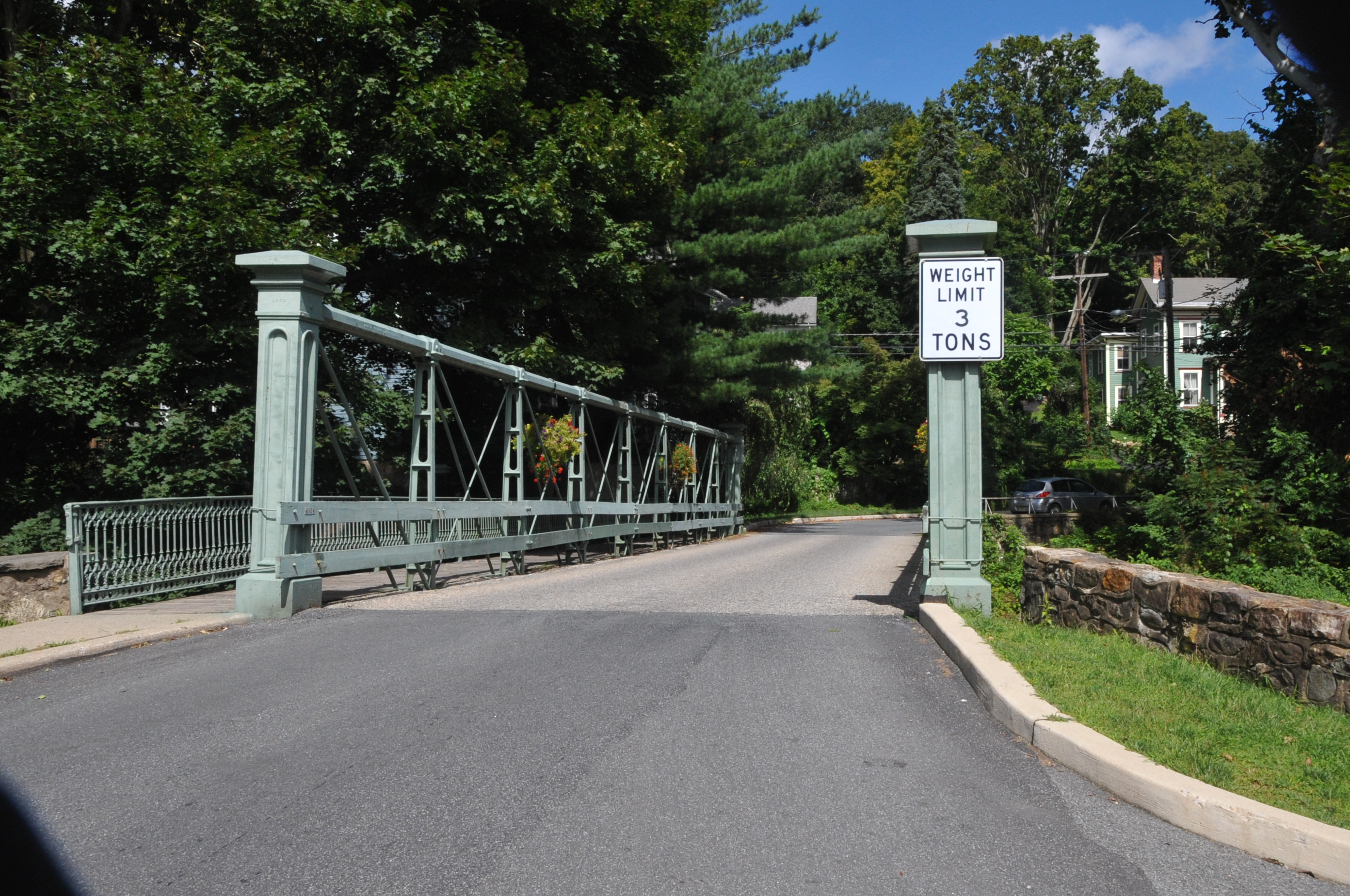 BUILT IN 1870 BY WILLIAM COWIN USING THE LOWTHORP DESIGN; 84 FEET, 1 SPAN OVER PRUCE RUN RIVER. REMARKABLE INTEGRITY WITH VIRTUALLY NO ALTERATIONS OVER 140 YEARS